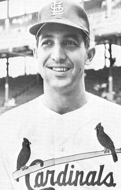 Professional baseball player Don Dennis